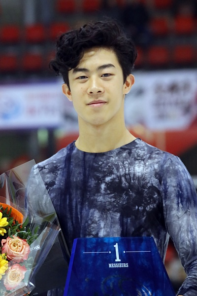 Nathan Chen at the 2018 Internationaux de France - Awarding ceremony